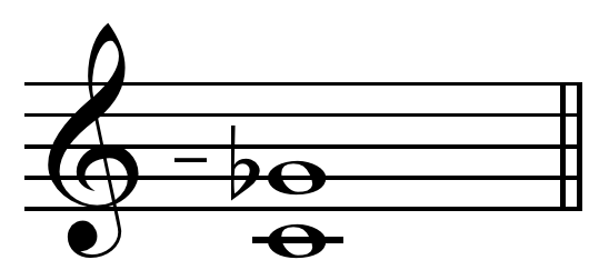 Diminished fifth tritone (Pythagorean diminished fifth) on C = G♭- (Ben Johnston's notation). 1024:729 = 588.27 cents. Limit: 3-limit.